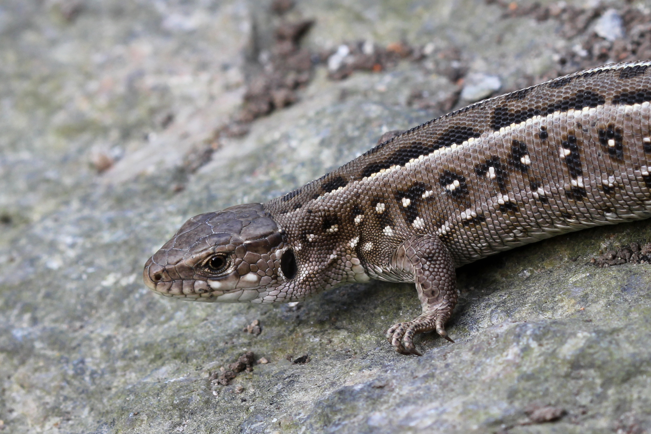 Sand lizard female (Lacerta agilis).